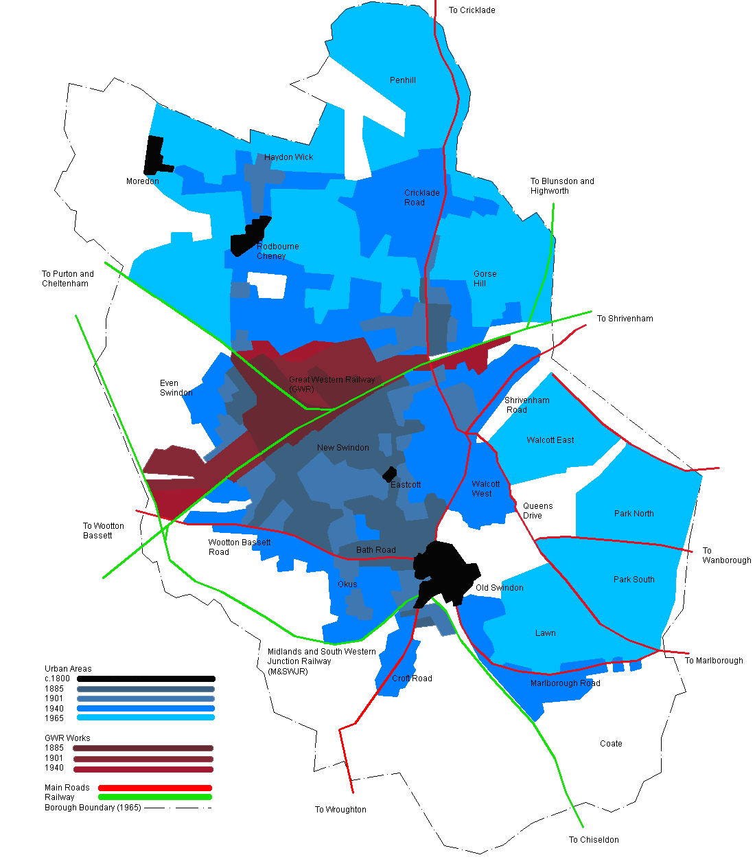 Diagram of the Swindon Urban Area growth 1800-1965